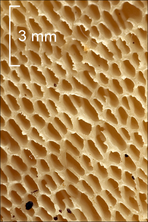 Polyporus tuberaster (Jacq.) Fr.